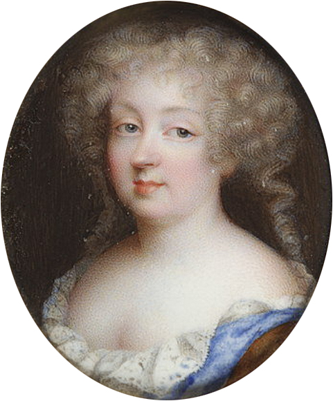 Painting of Marie Jeanne of Savoy (1644-1724)